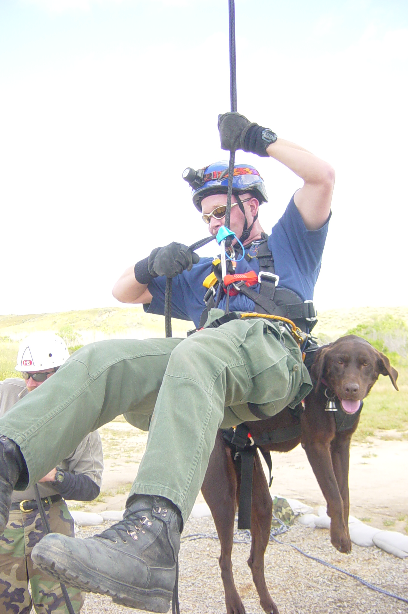 U.S. Customs and Border Protection Canine Enforcement Program Original caption: BORSTAR canine team conducting rappel training Annotation: BORSTAR refers to Border Patrol Search, Trauma, and Rescue